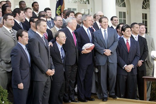 President George W. Bush poses with the New England Patriots during a ceremony honoring the 2004 Super Bowl Champions in the Rose Garden April 13, 2005.